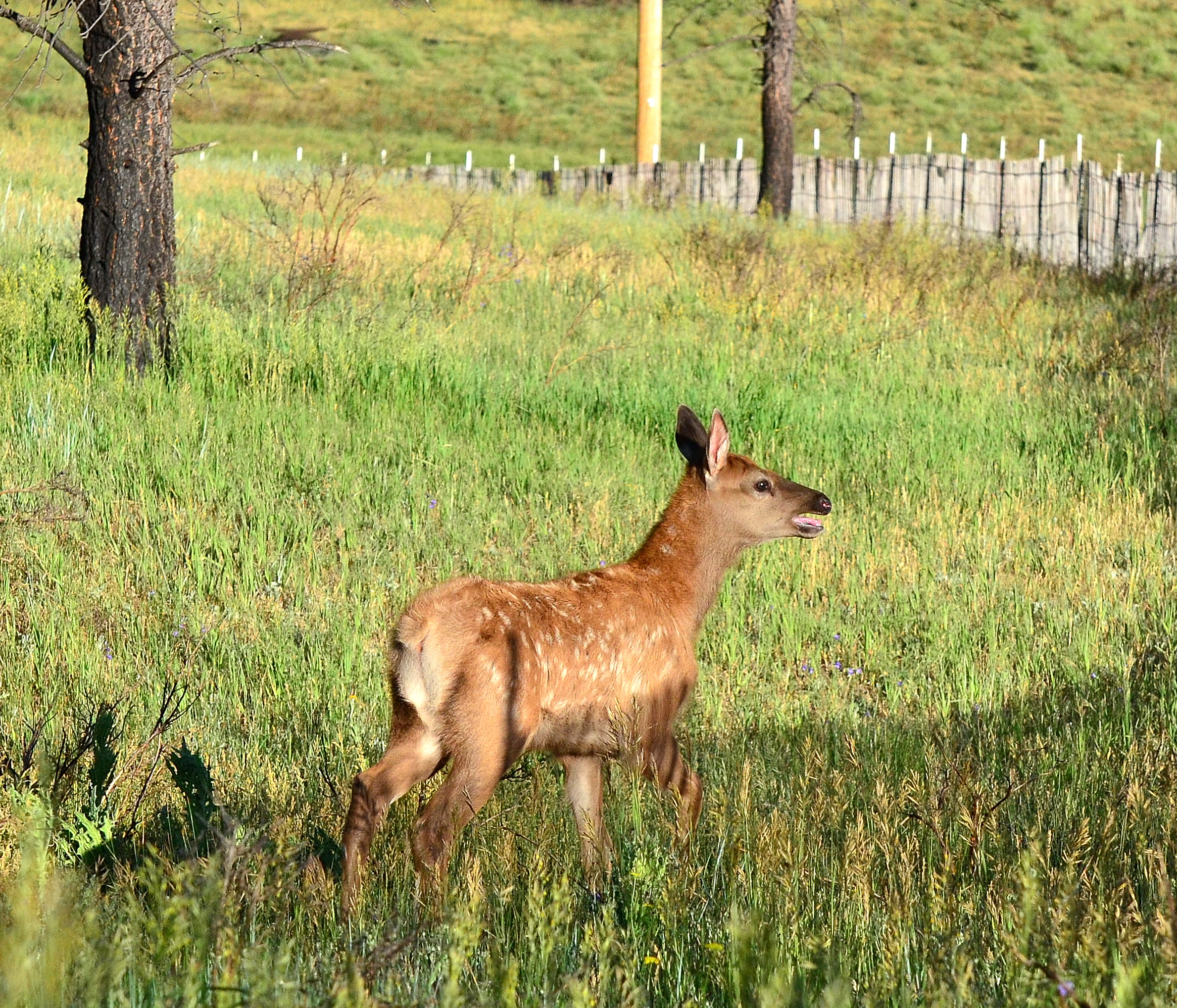 Elk calf (Cervus canadensis) in Valles Caldera, New Mexico